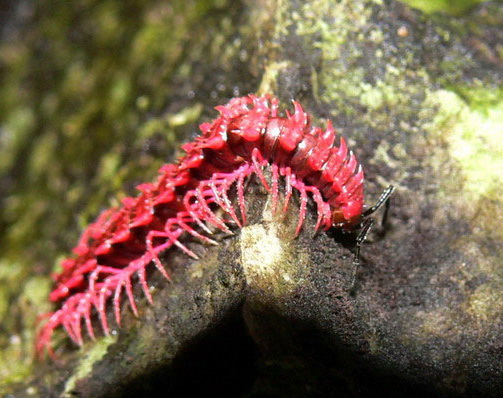 Desmoxytes purpurosea, the shocking pink dragon millipede at the Hup Pa Tard, Thailand.